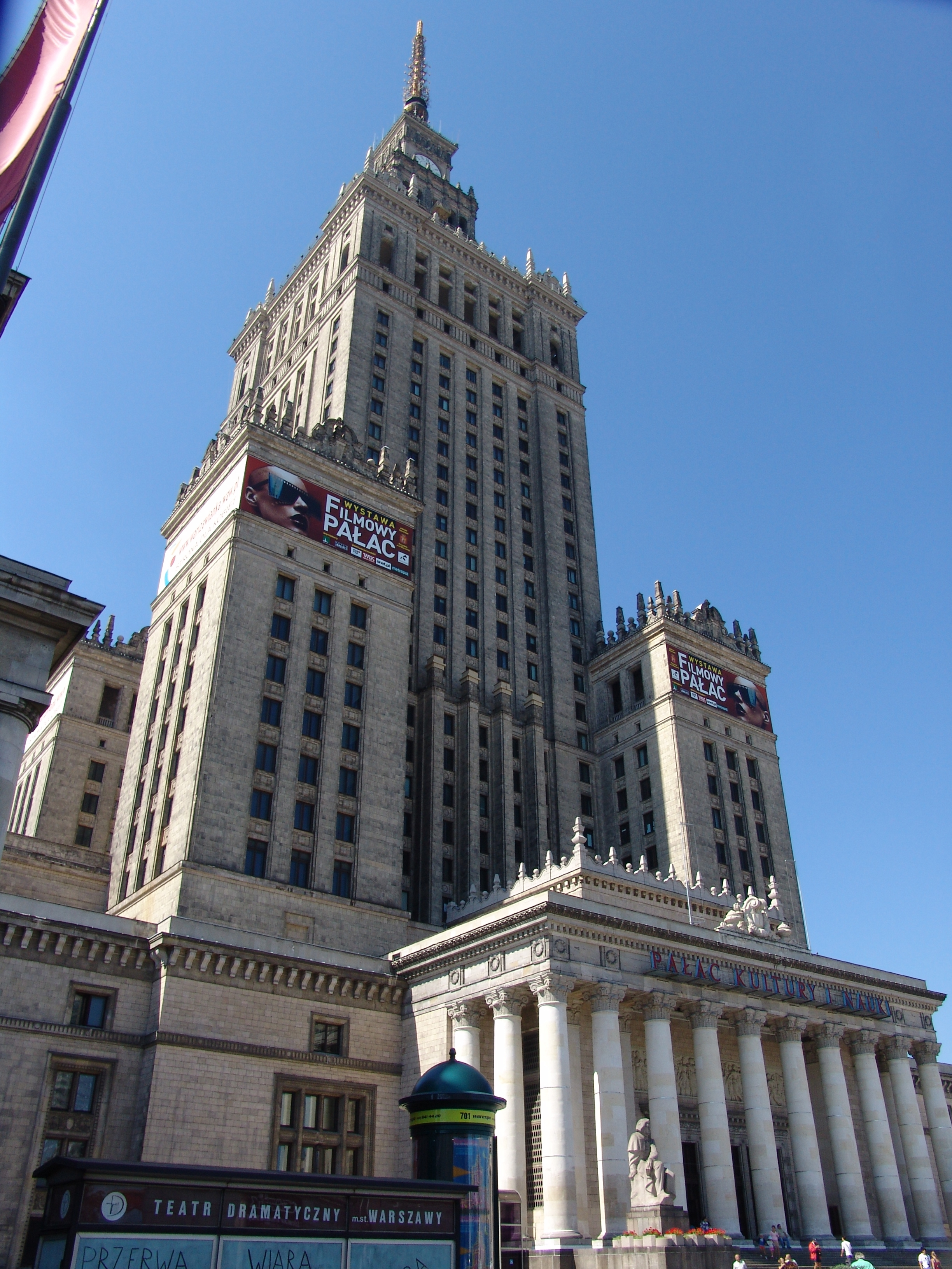 The Palace of Culture and Science in Warsaw